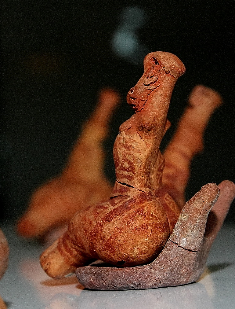 Goddess Council 4900-4750 BC Neolithic Culture of Cucuteni-Tripolyeexposed in Cucuteni Museum of Piatra Neamt.